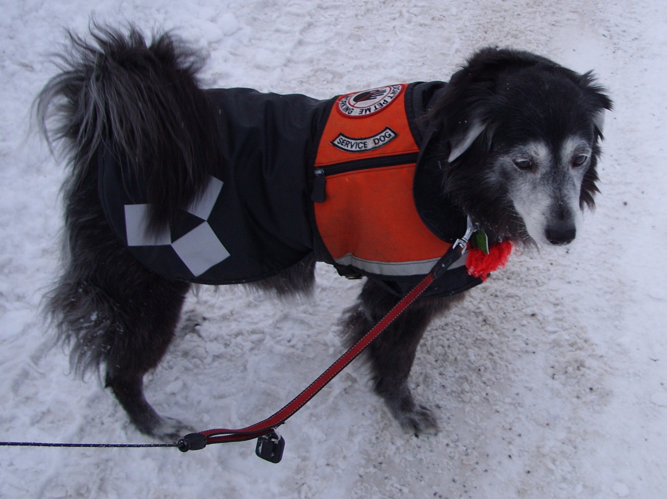 "Suzi Q the Service Dog" in Finland. Suzi Q wears a waterproof underjacket and a brightly colored, light-reflective service jacket. "Don't Pet Me --I'm Working" and "Service Dog" patches are emblazoned on the service jacket. The jacket has a padded chest strap and pockets for carrying small items, such as the service dog's passport. The collar has a flashing red neon light that can be turned on when walking in the dark, and on the leash, a small light also flashes (Scandinavian countries experience long periods of darkness). Though the jacket says "Don't Pet Me --I'm Working" all service dogs should know the command "Say hello" to allow approaches of strangers, when necessary, for petting and handling, especially when going through airports where patdowns are necessary.